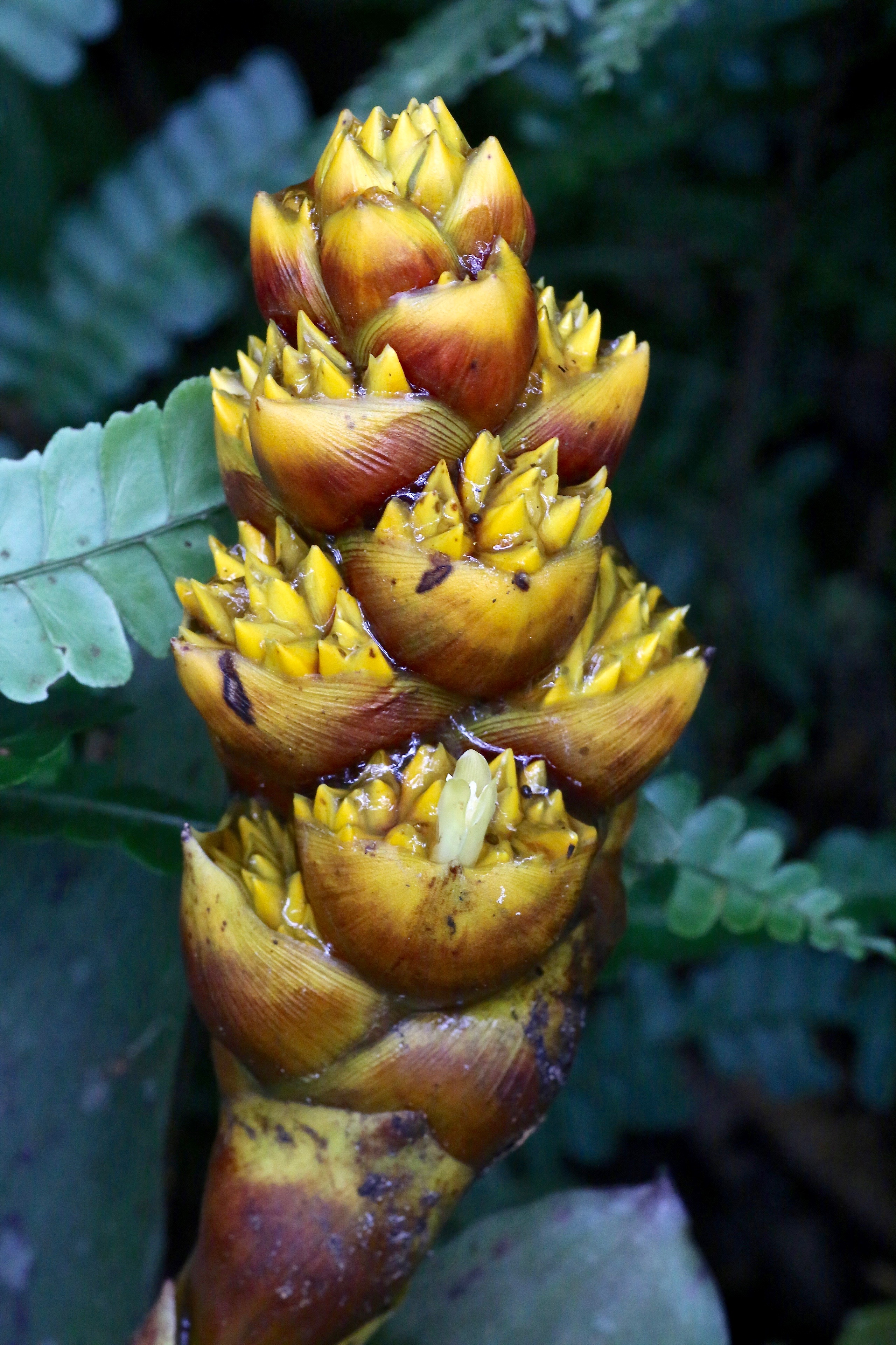 Ecuador, Pichincha province, Mindo cloud forest.